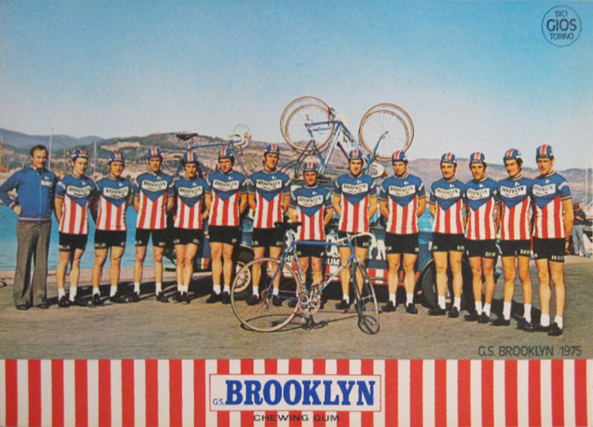 Brooklyn cycling team 1975 postcard